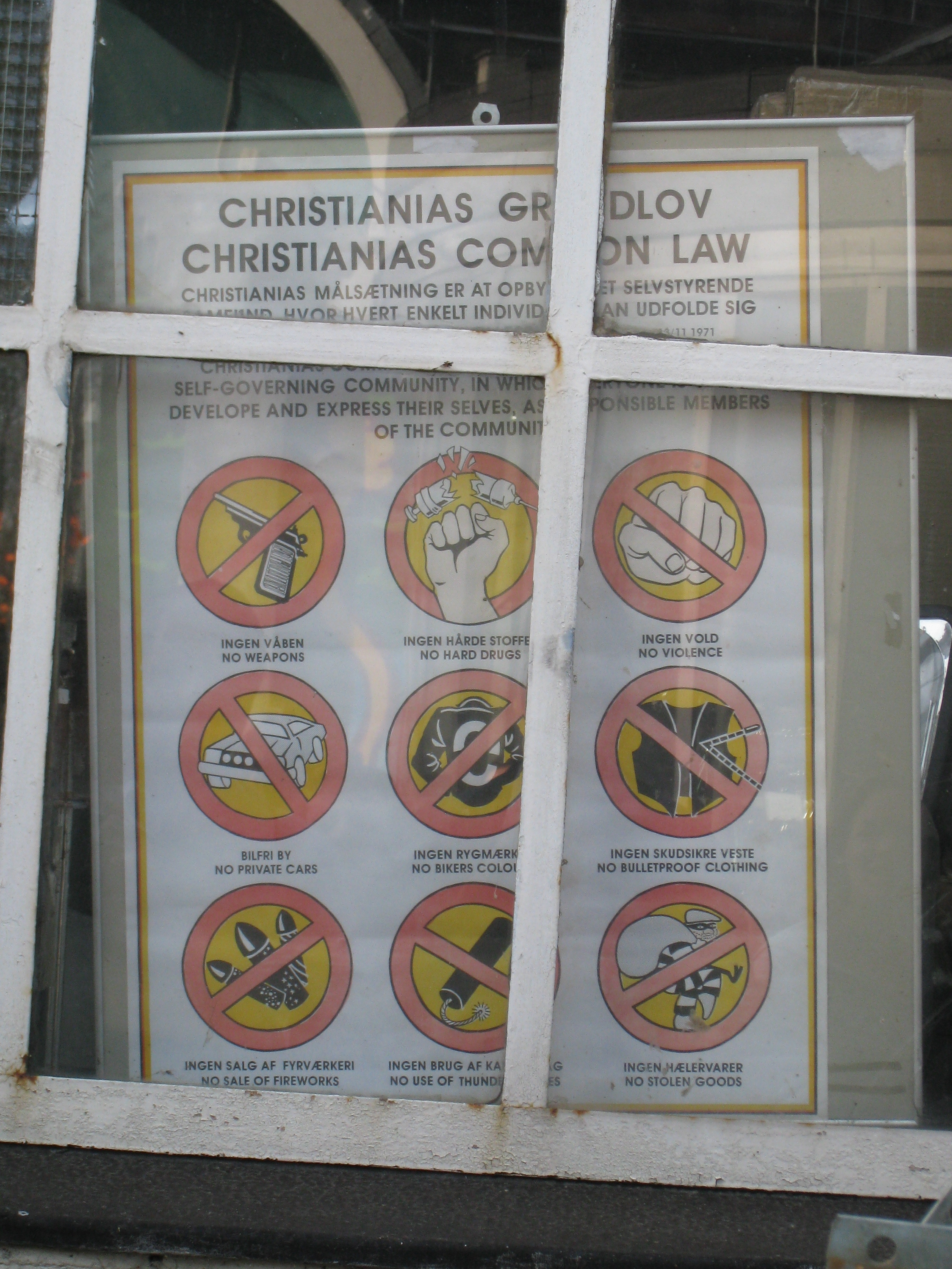 The 9 laws of Christiania, self-regulated community in Copenhagen, Denmark.